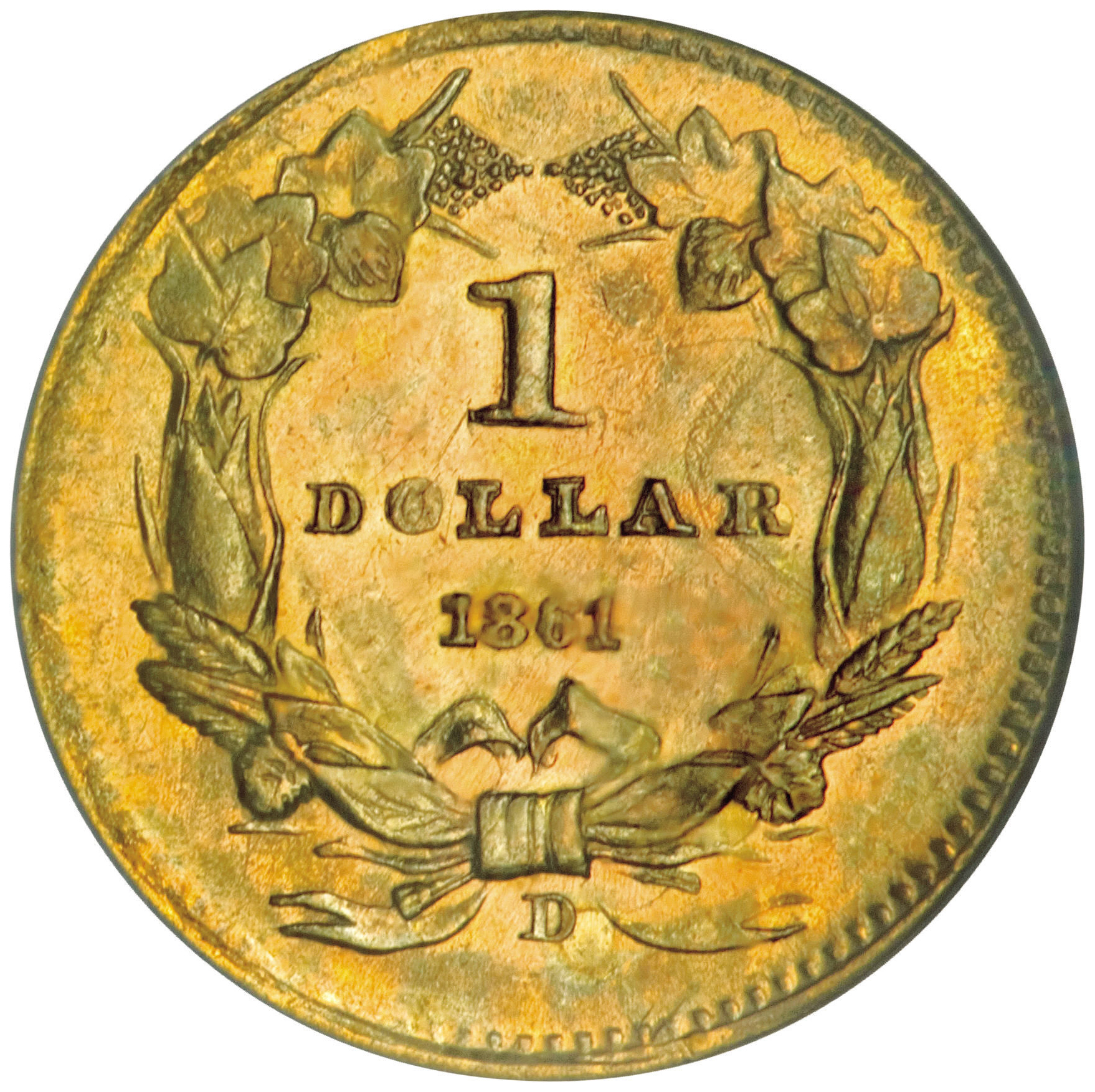 1861-D G$1 (454-3050)